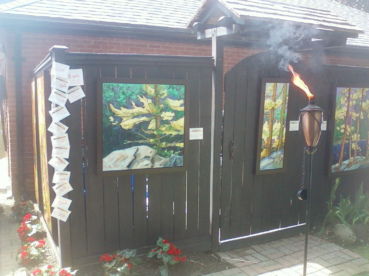 Gordon Harrison Gallery, Doors Open Ottawa, 2011